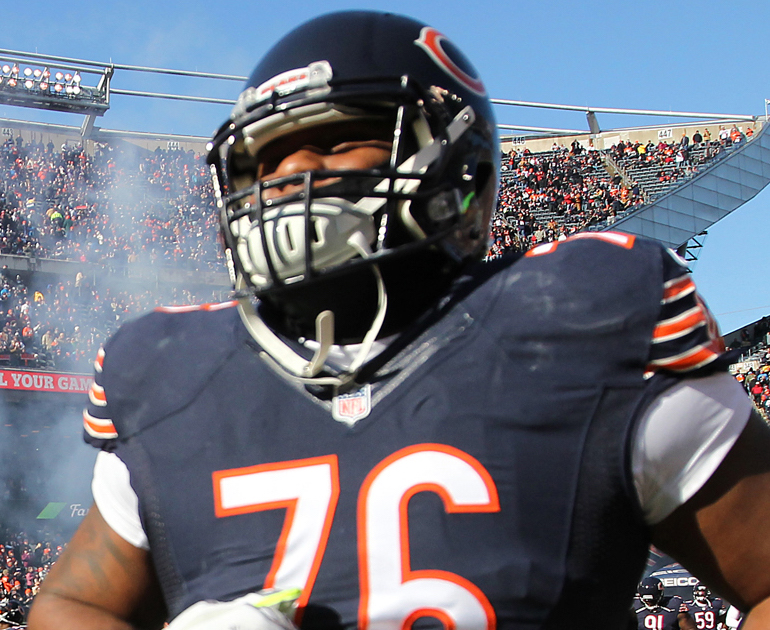 Chicago Bears defensive end, Bruce Gaston, in a game against the Denver Broncos on November 22, 2015.